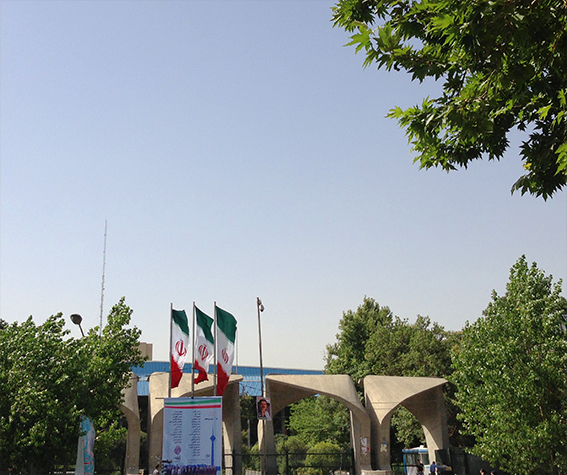 Tehran University's main entrance on Enqelab Street in Tehran, Iran.